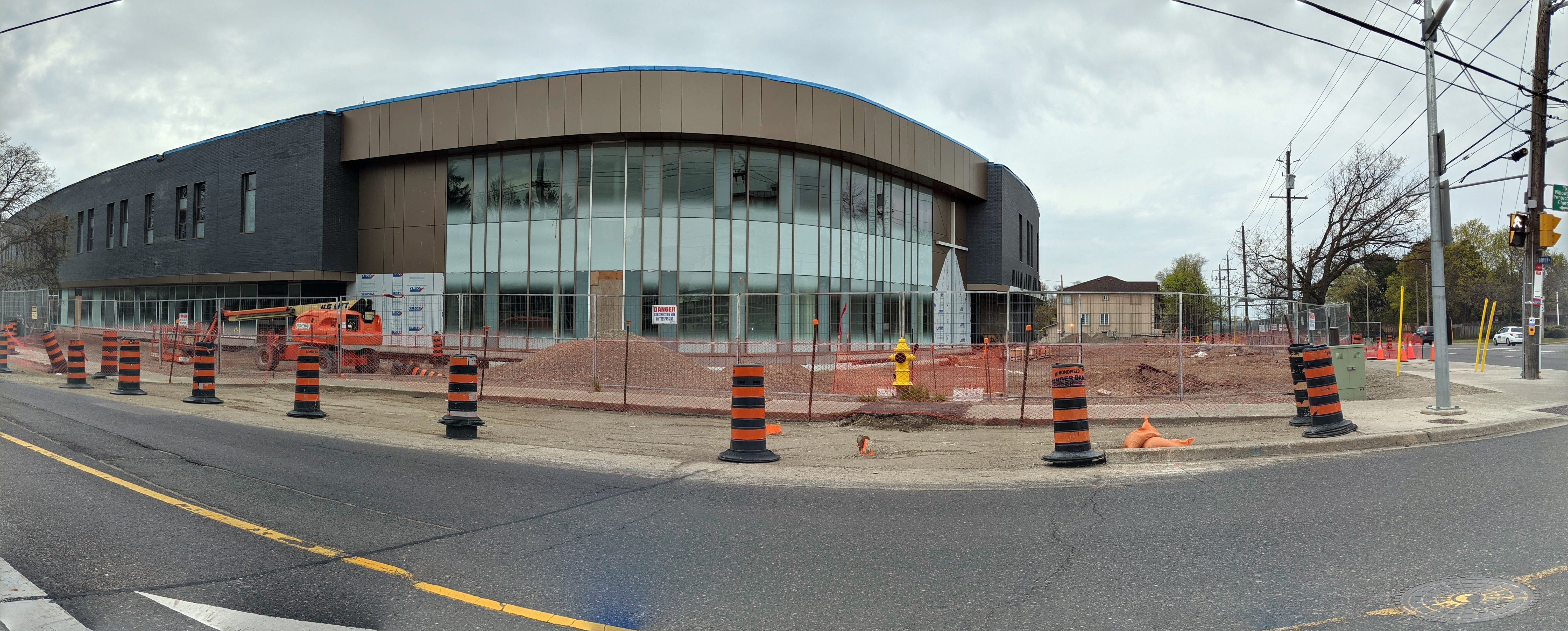 St. Joseph Morrow Park Catholic Secondary School under construction